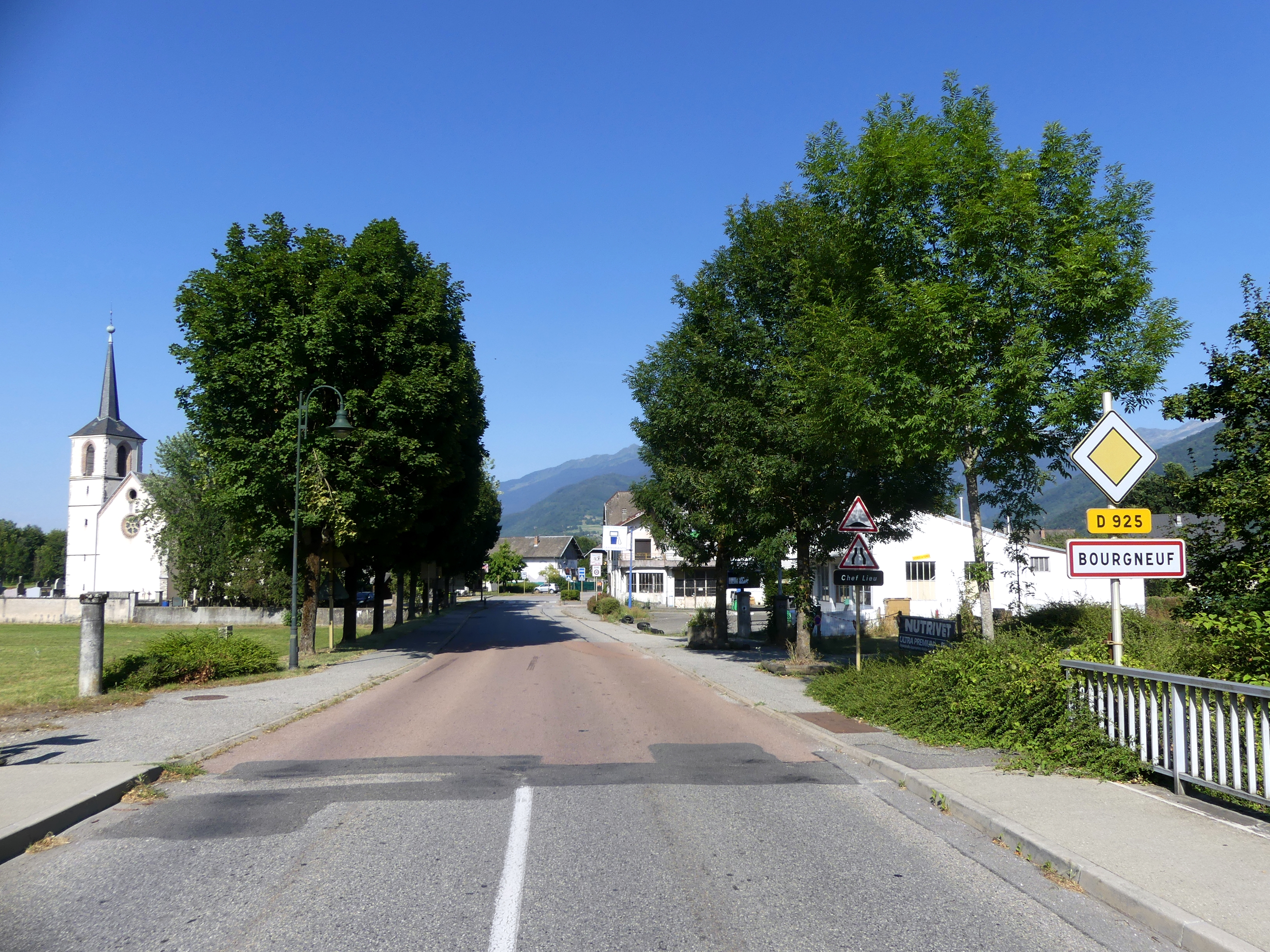 Sight of the entrance to Bourgneuf village whose church is visible on the left, in Savoie, France.